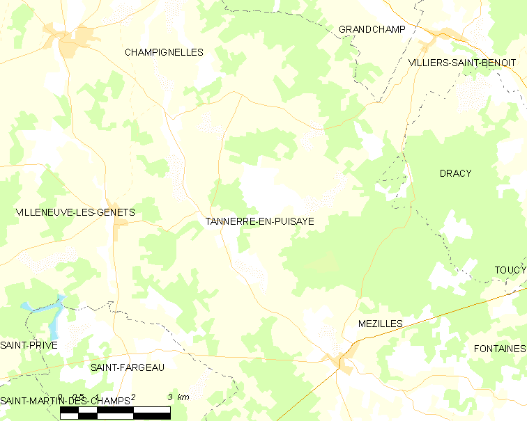 Map of French municipality Tannerre-en-Puisaye